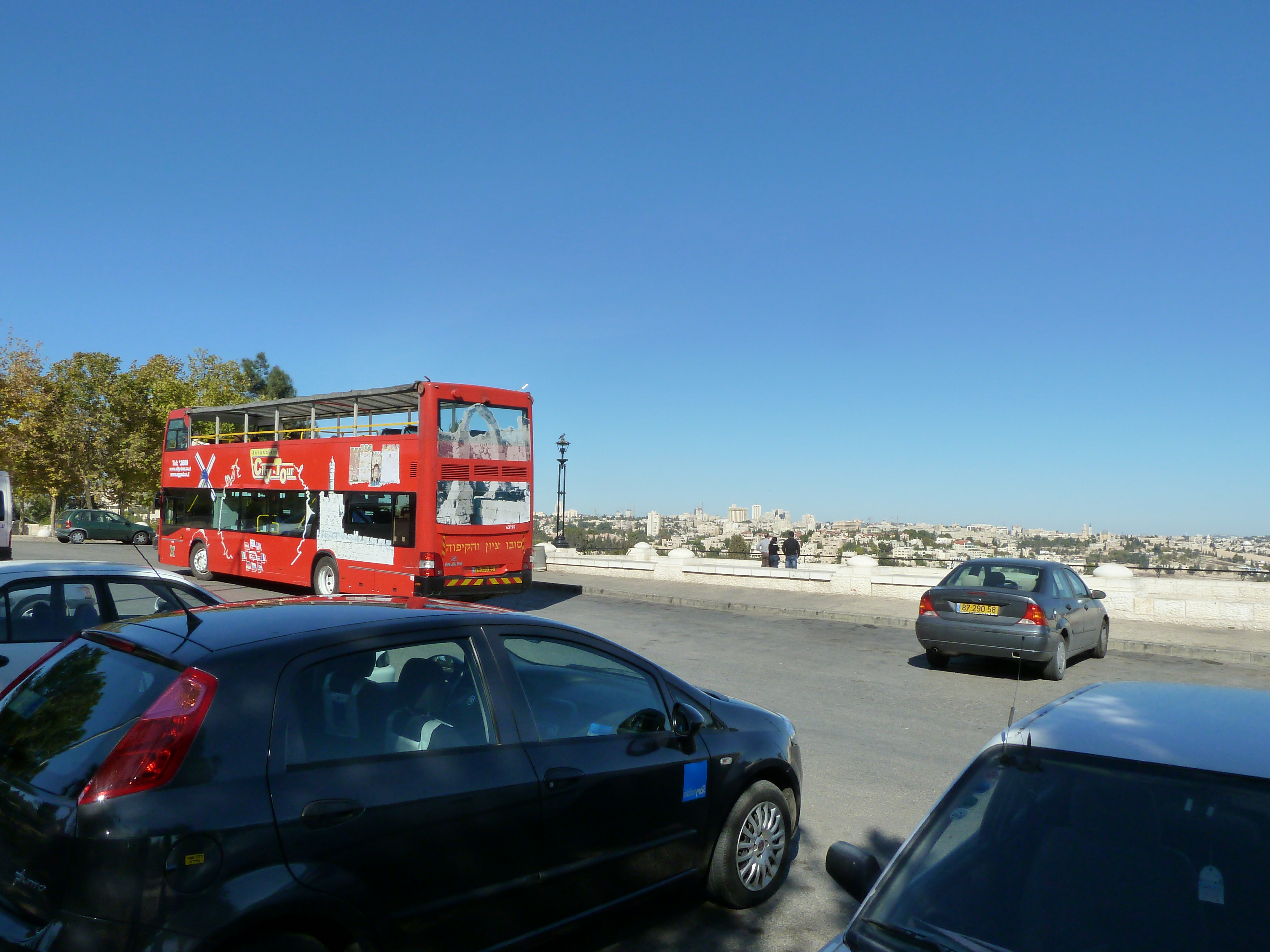 Jerusalem Haas Promenade Belvedere Egged Touring Bus 99